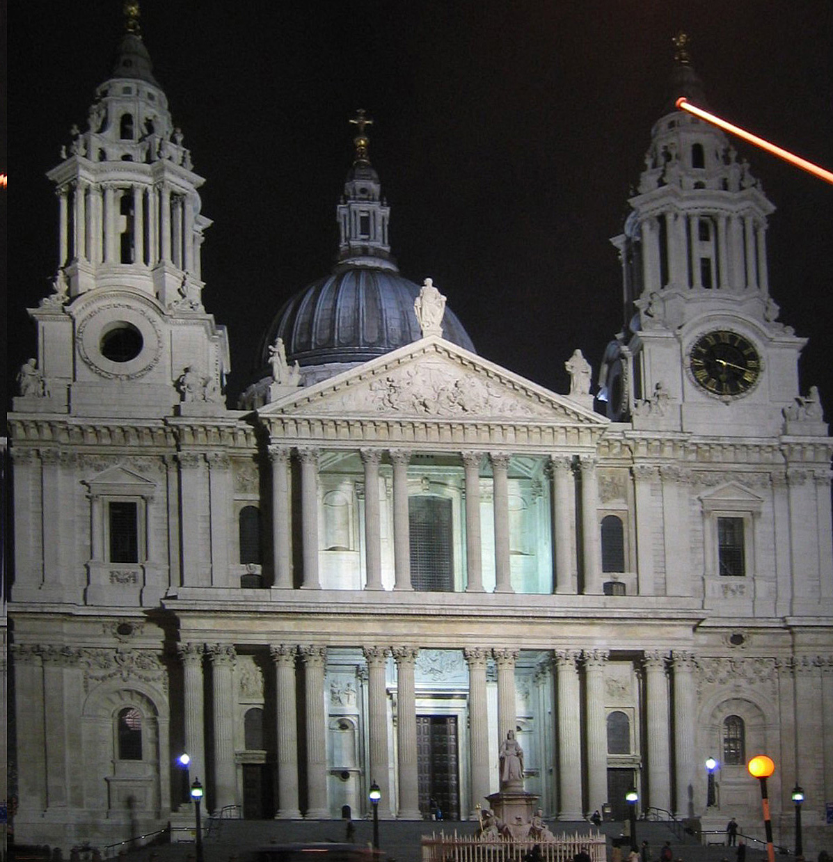 St Paul's Cathedral, London, at night, taken from Ludgate Hill. Photo taken by me 2005-02-08.